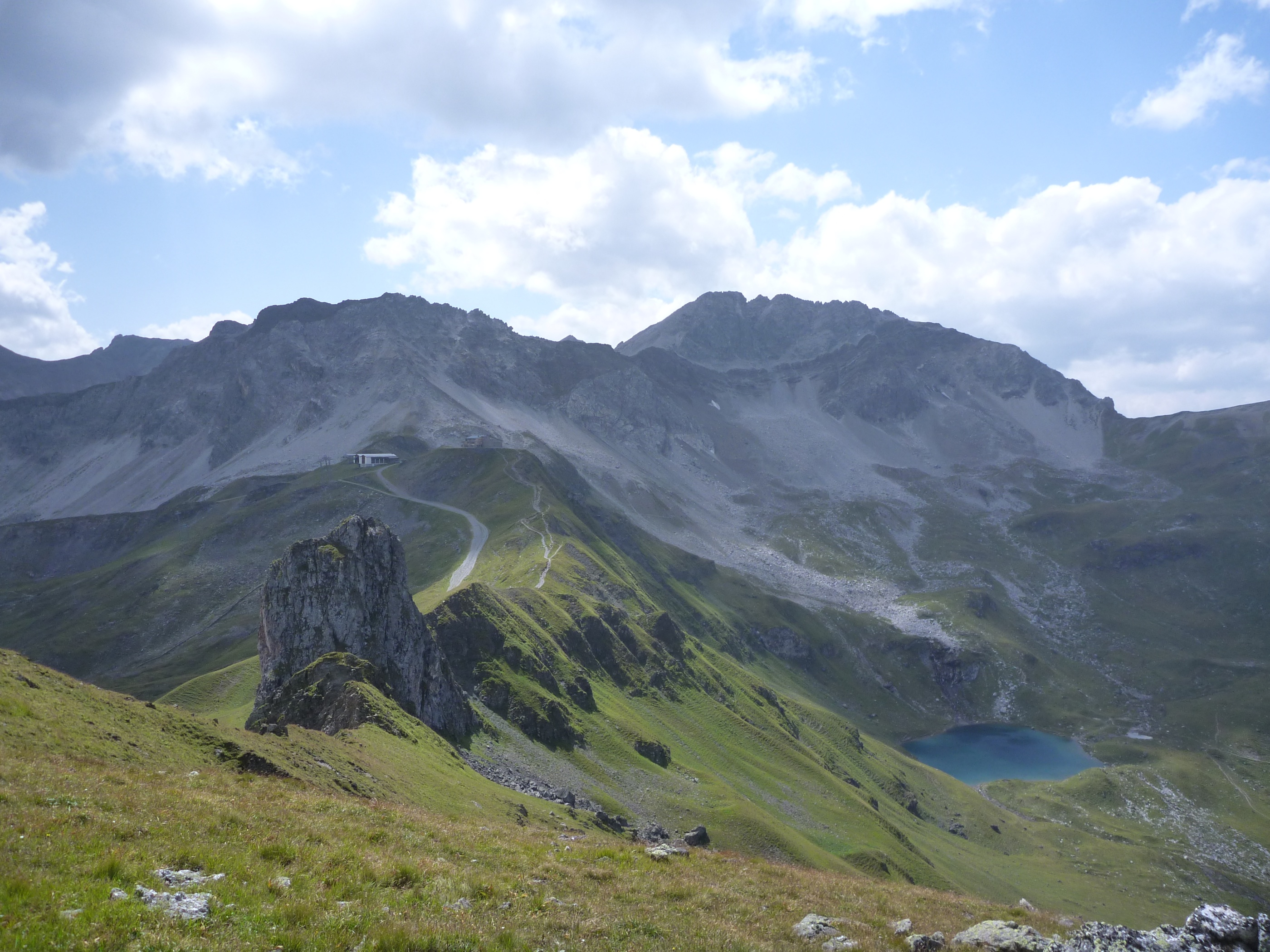 Lake Urden (Urdensee) near Arosa with Hörnli and Hörnlihut